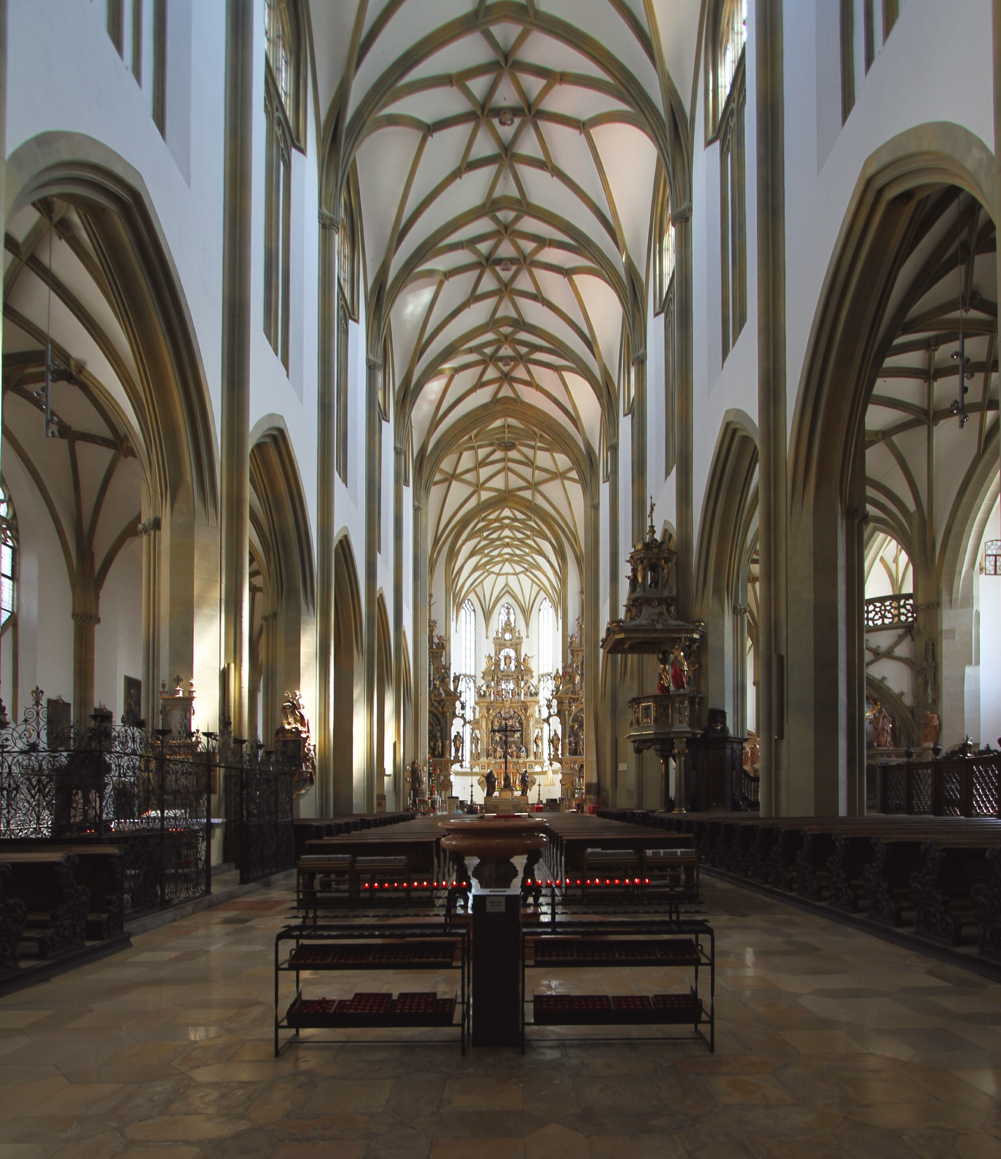 Church of St. Ulrich+Afra in Augsburg, interior decoration.